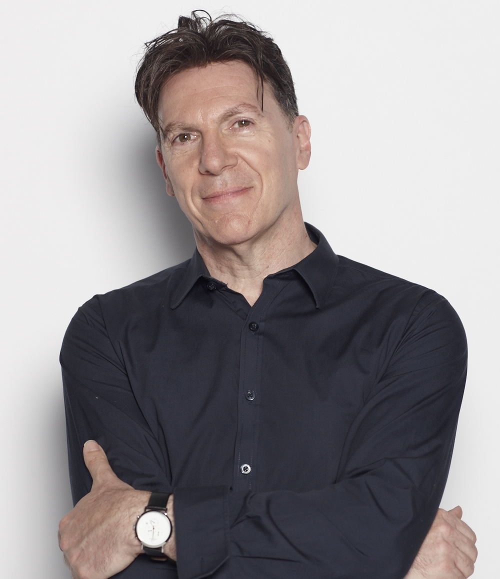 Head shot of Phil Ryan